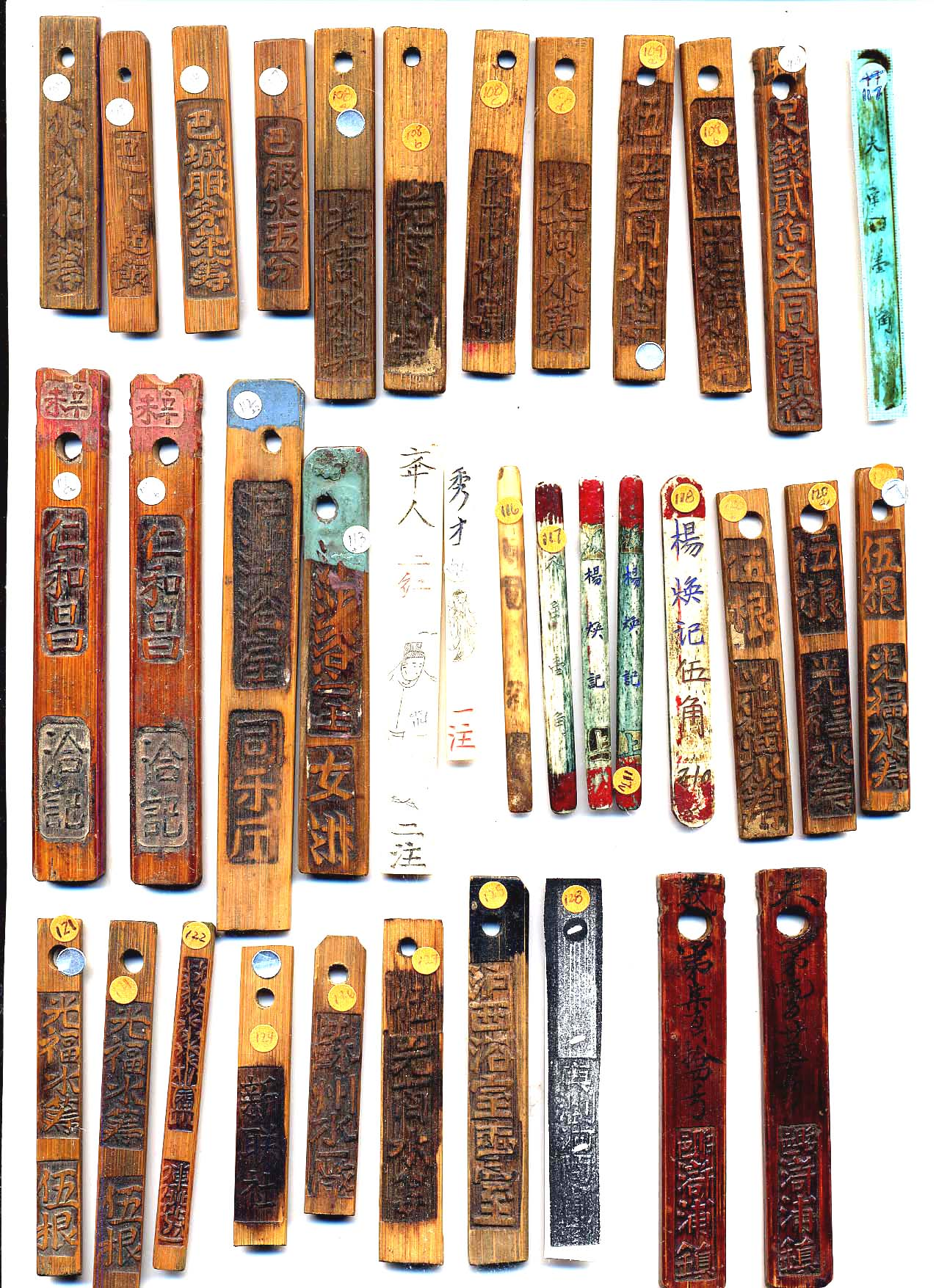 Images of Bamboo tallies provided by Scott Semans World Coins' website. Bamboo tallies were an alternative currency used in China.